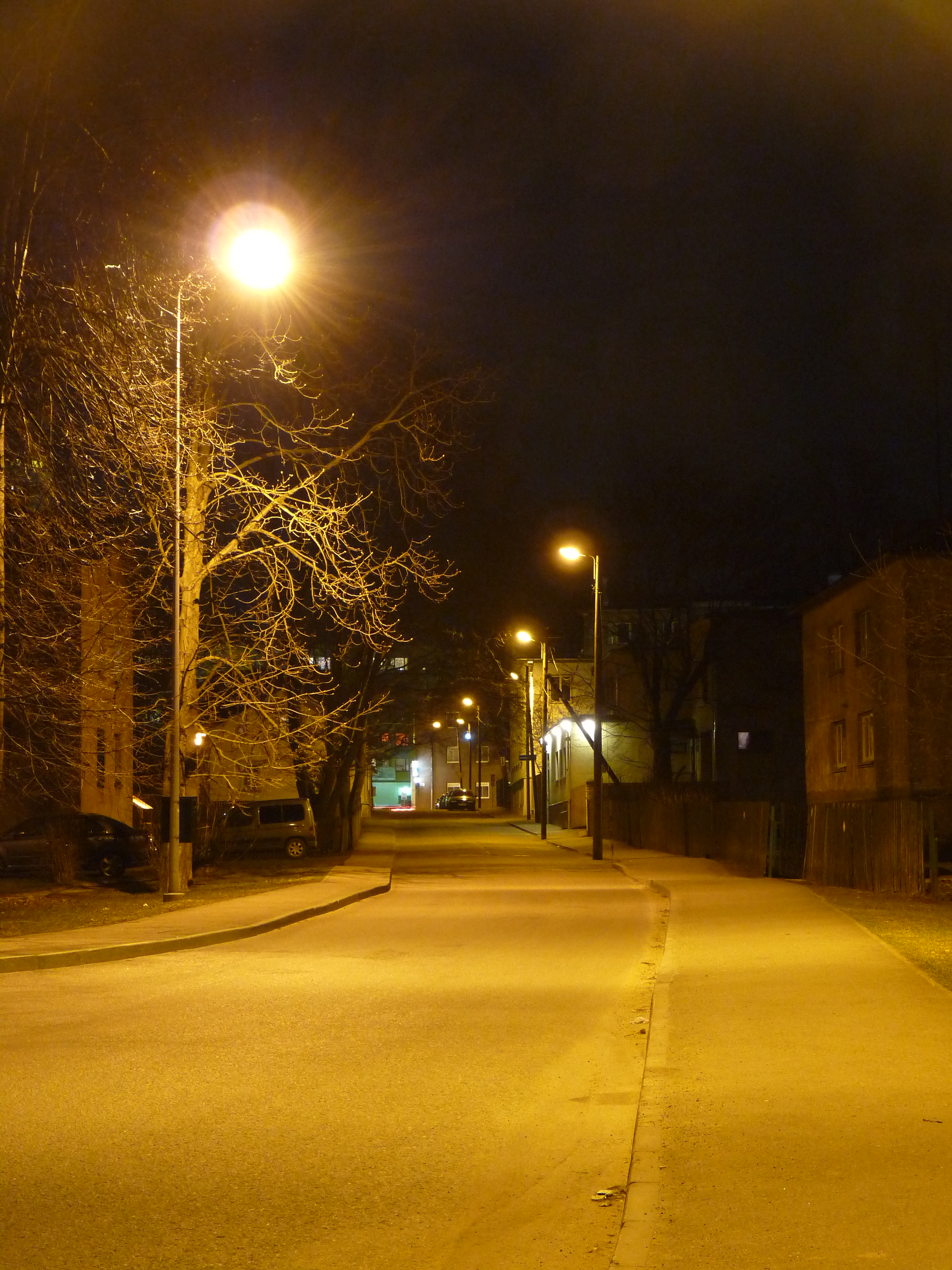 Marta street in Tallinn, Estonia